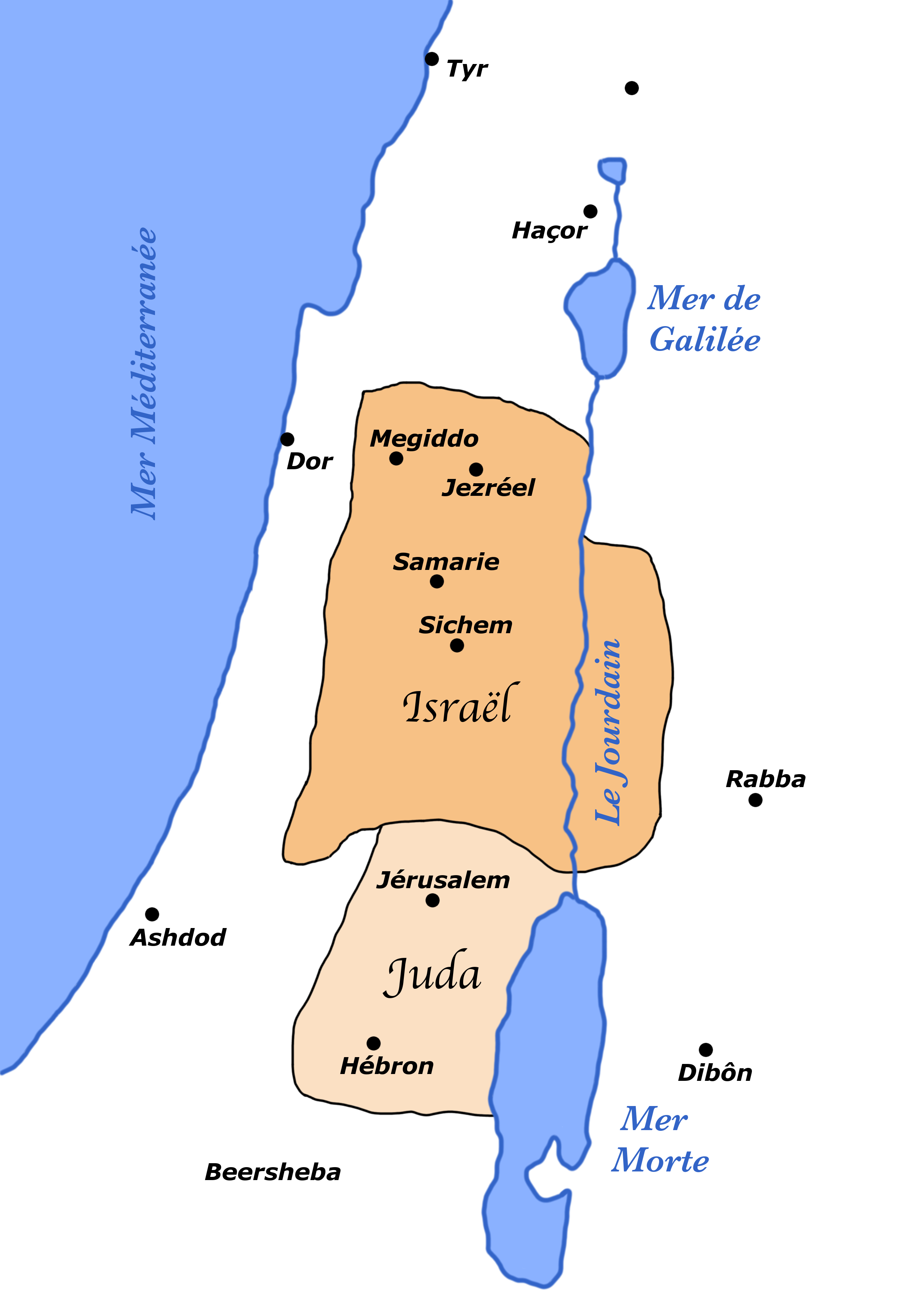 Map of the Kingdom of Israel before the time of Omrides (high population density). Judah (low population density). Drawn from a map by Israel Finkelstein, Le Royaume biblique oublié, p.128 (The Forgotten Kingdom: The Archaeology and History of Northern Israël).